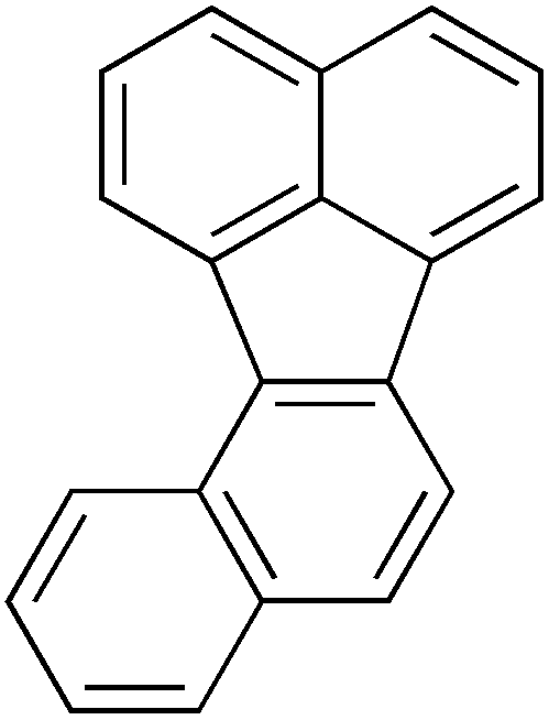 chemical structure of benzo[j]fluoranthene; benzofluoranthene